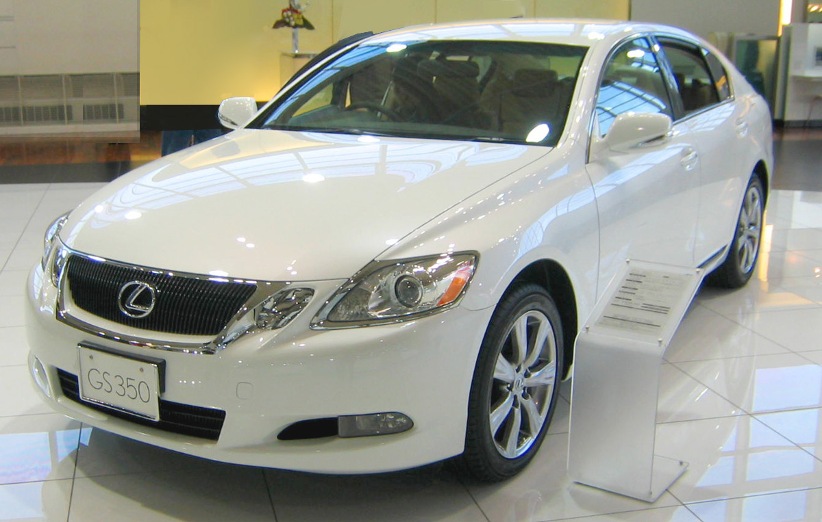 GS 350